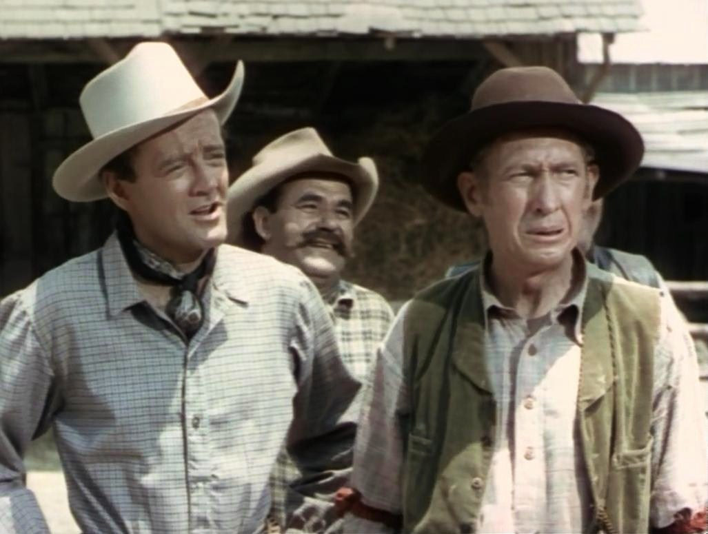 Robert Walker (left) & Tom Fadden (right) in Vengeance Valley - cropped screenshot